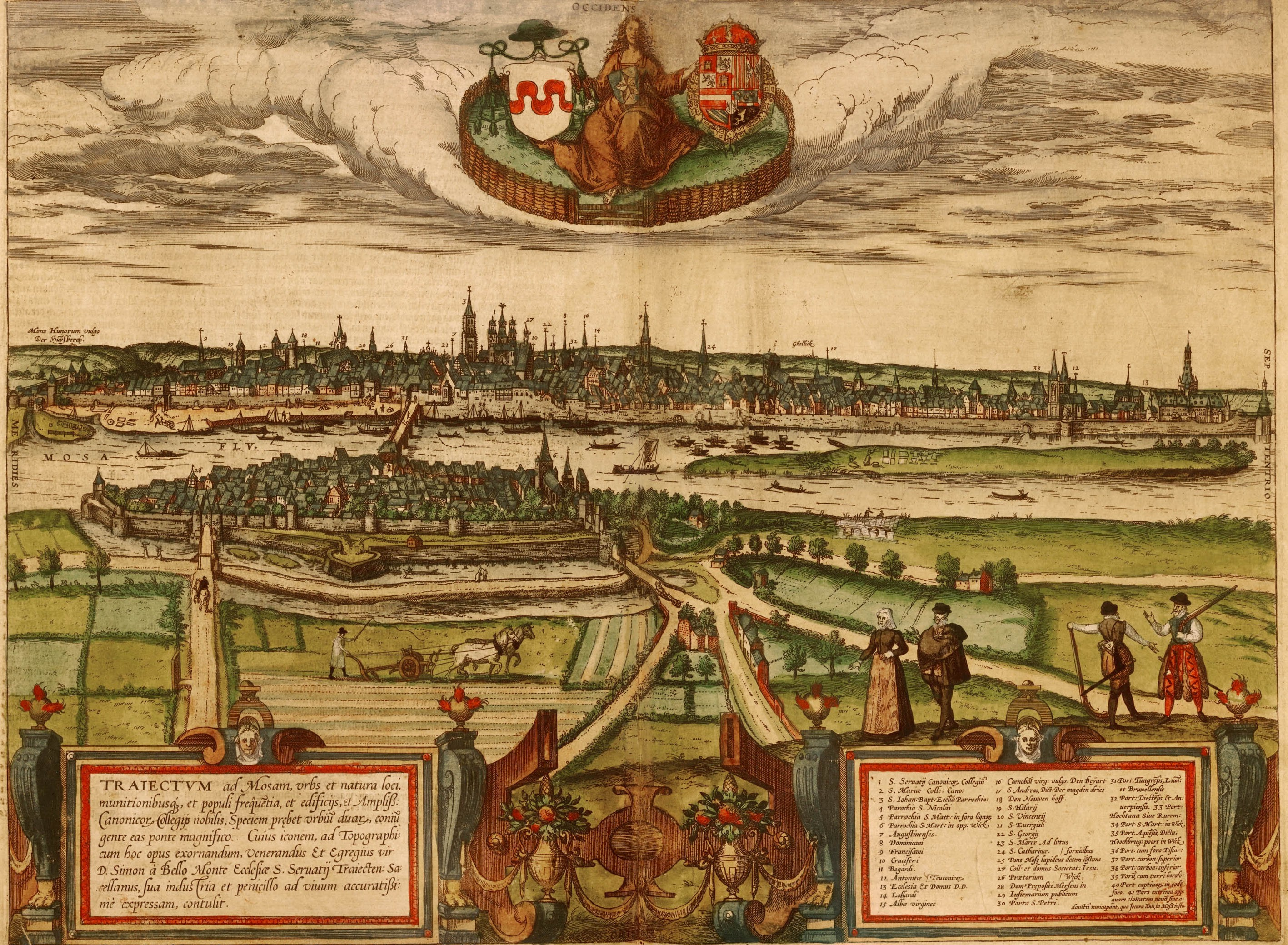 drawing of Maastricht, by Philippo Bellomonte from 1580 or 1582